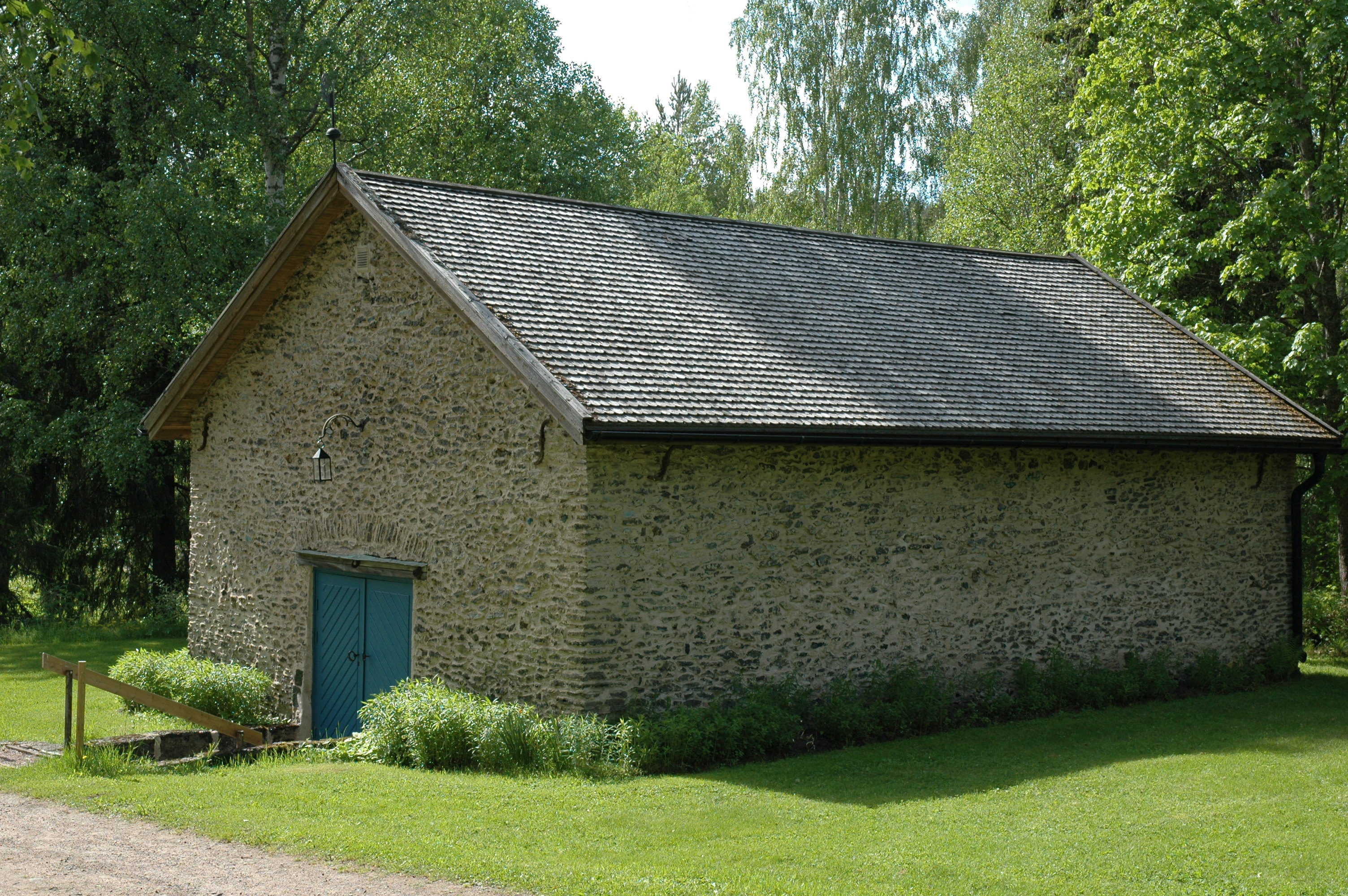 Pictures from the "Bergslagssafari" that Swedish Wikipedia performed between 4th and 6th of June 2010.